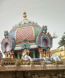 Tirumiyachur ilankovil sakalabuvanesvarartemple திருமீயச்சூர் இளங்கோயில் சகலபுவனேஸ்வரர் கோயில்